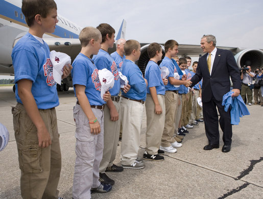 Original caption: "President George W. Bush congratulates members of the Columbus Northern Little League Team on winning the 2006 Little League Baseball World Series Championship at Dobbins Air Reserve Base in Marietta, Ga., Thursday, Sept. 7, 2006. White House photo by Eric Draper "